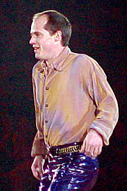 Kurt Browning skates to "Brick House" during a Stars on Ice performance at the Cumberland County Civic Center in Portland, Maine. Photo taken by NightThree on April 8, en:2000.